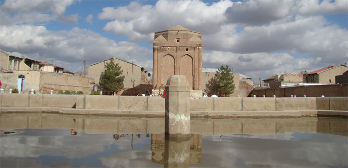 Tower of Gonbade Sorkhe Maragheh . It is a part of observatory of Maragheh.